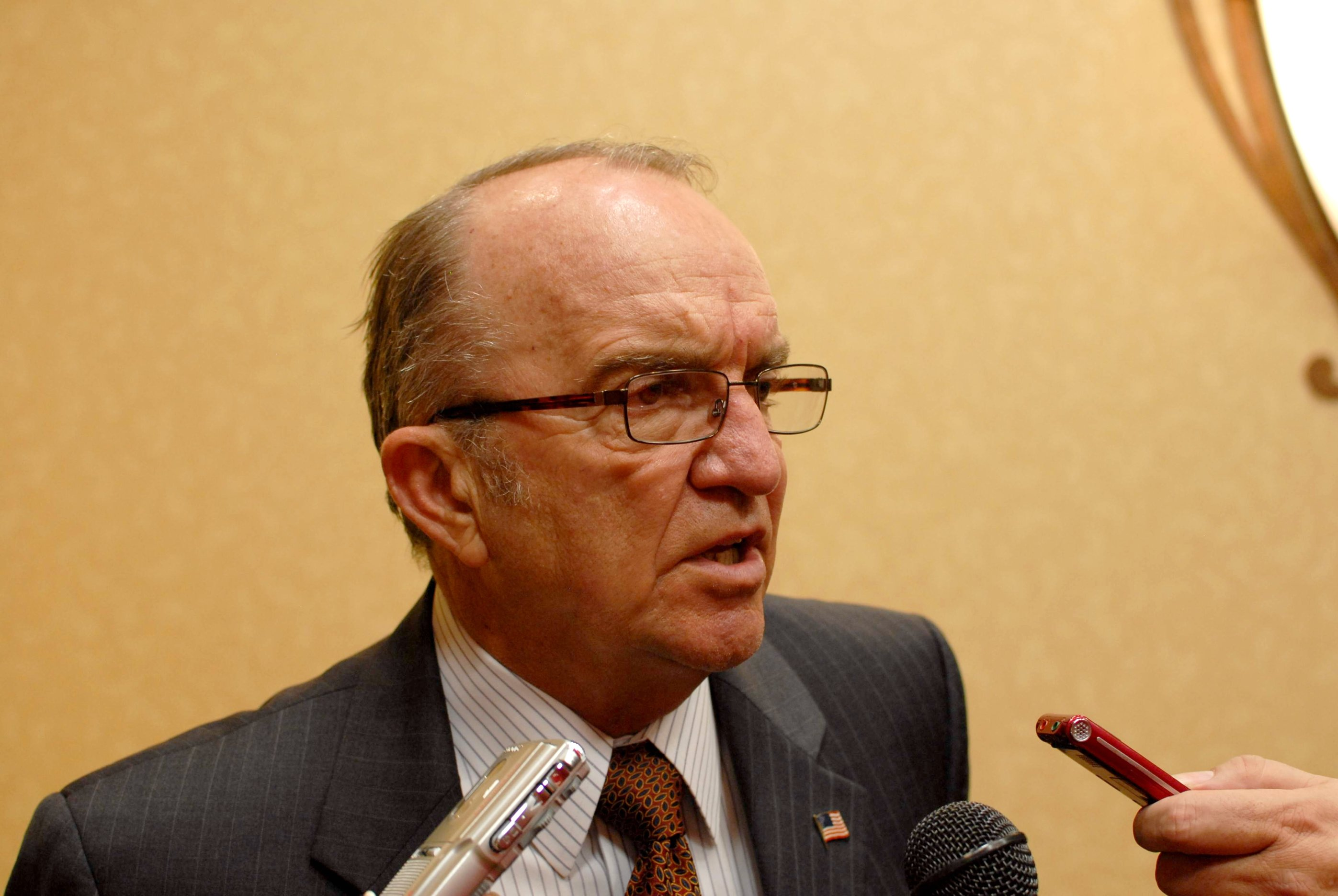 NASCAR and auto racing owner Jack Roush at a 2010 National Motorsports Press Association event in 2010. Photo by Ted VanPelt creative commons license.